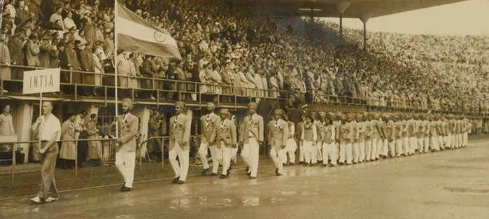 The march past of Olympians from India during Inaugural function of 1952 Helsinki Olympics